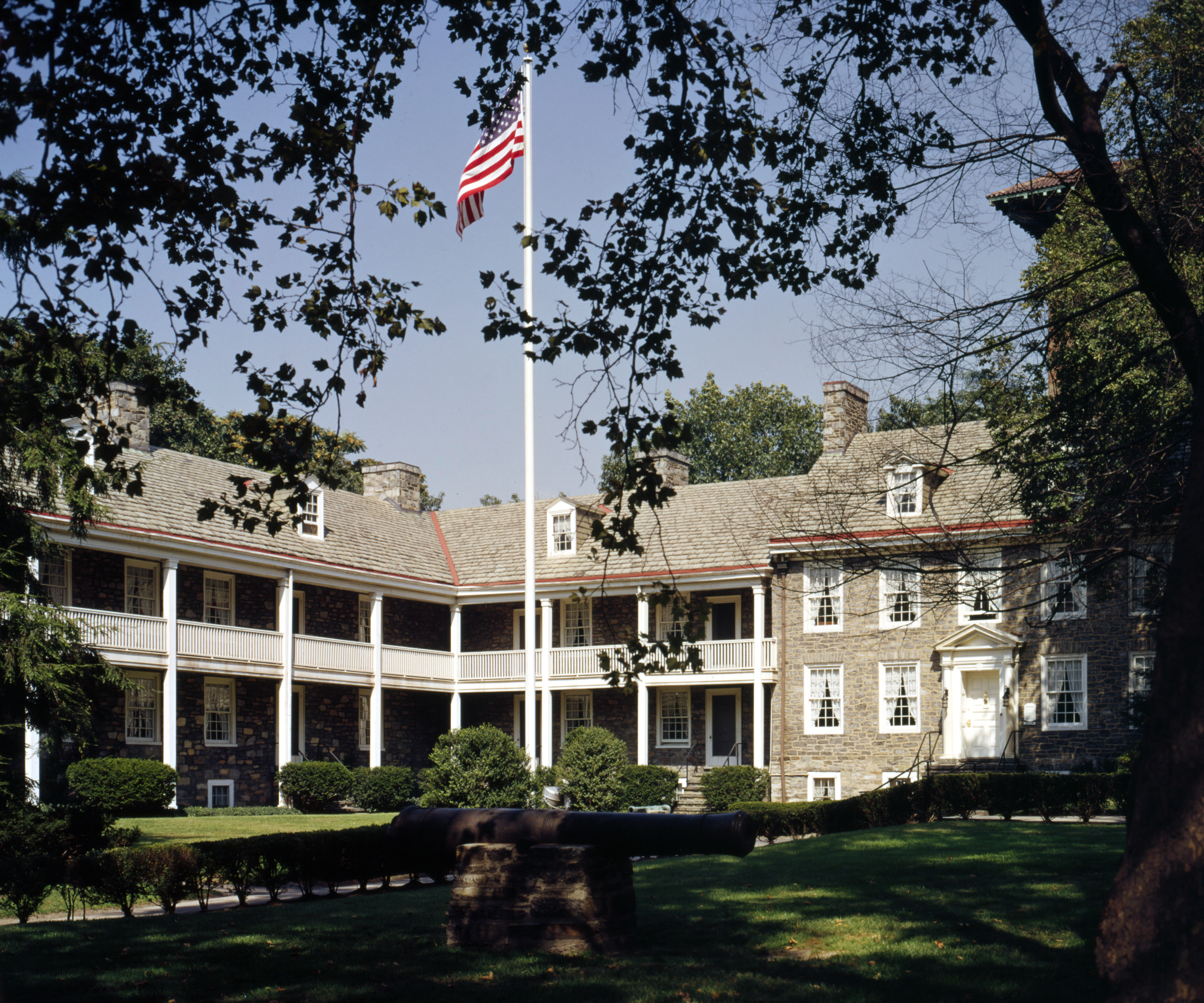 Old Barracks, South Willow Street, Trenton (Mercer County, New Jersey) (cropped)